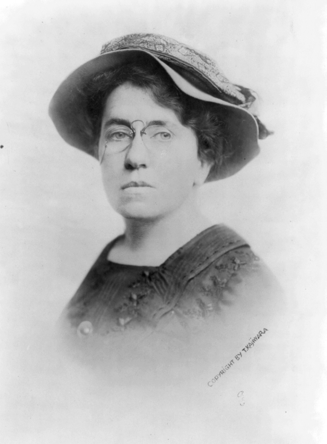 Emma Goldman, bust from "Anarchism and other essays". Photomechanical print.